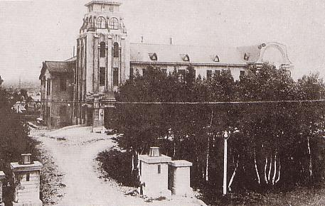 Ochiai Town Office